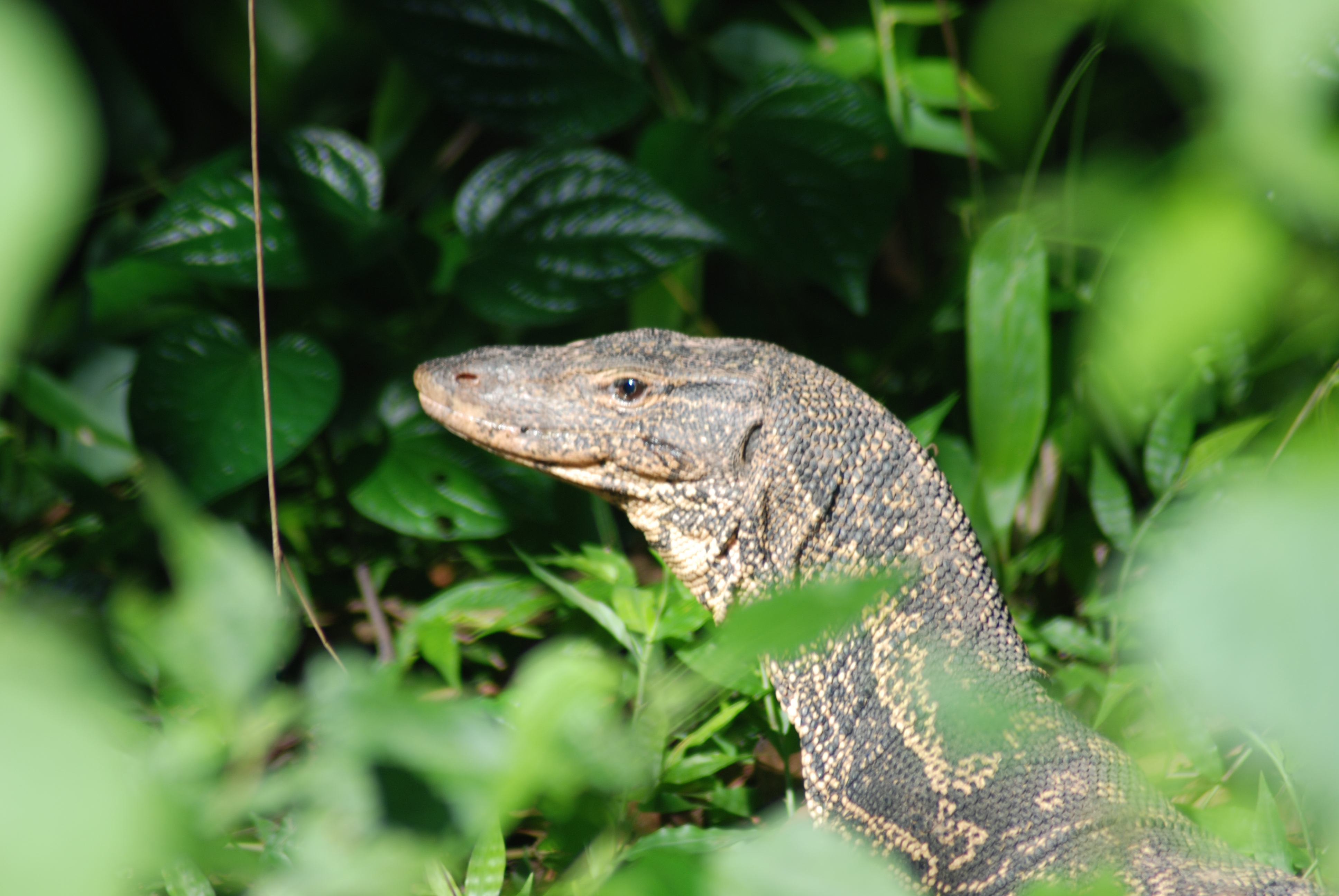 Asian water monitor lizard (Varanus salvator salvator) in Khao Yai National Park, Thailand.